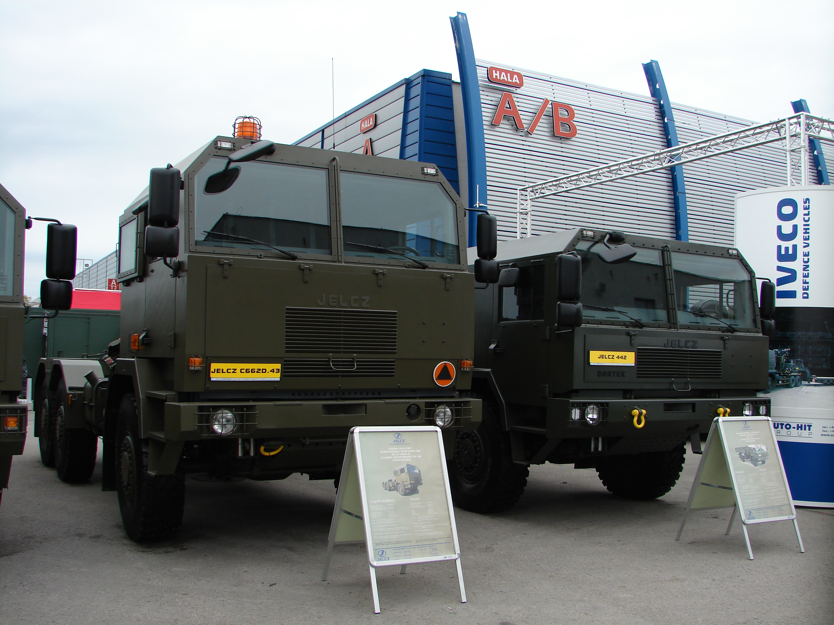 Ciągnik siodłowy Jelcz C662 D43 i Jelcz S442 D28